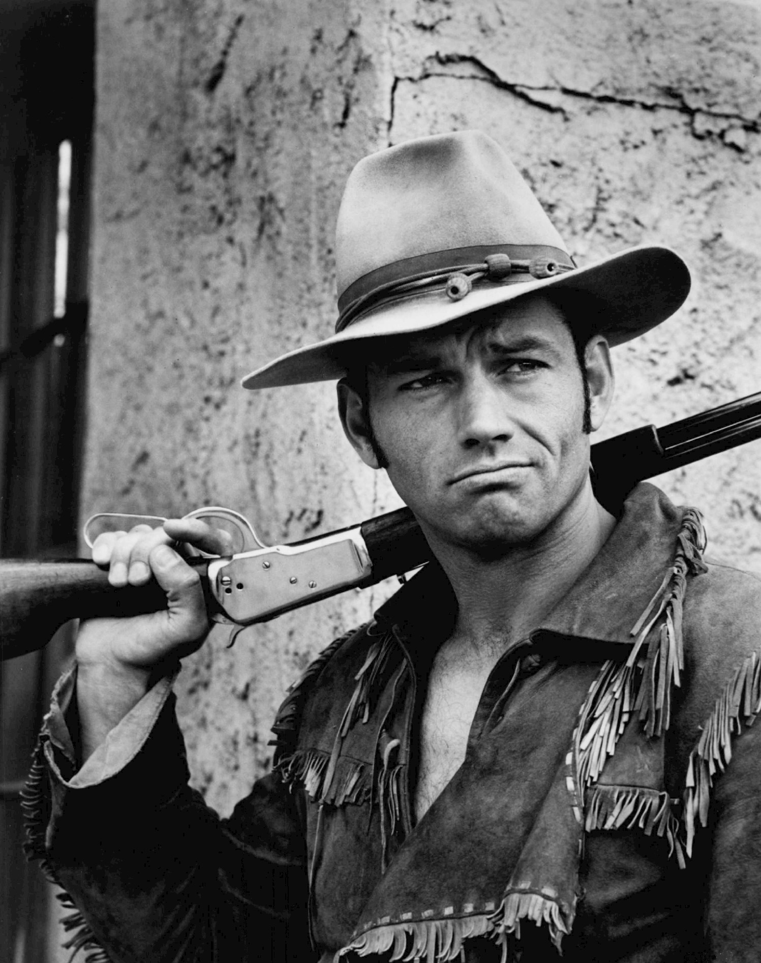 Photo of Ralph Taeger as Hondo Lane from Hondo (TV series).